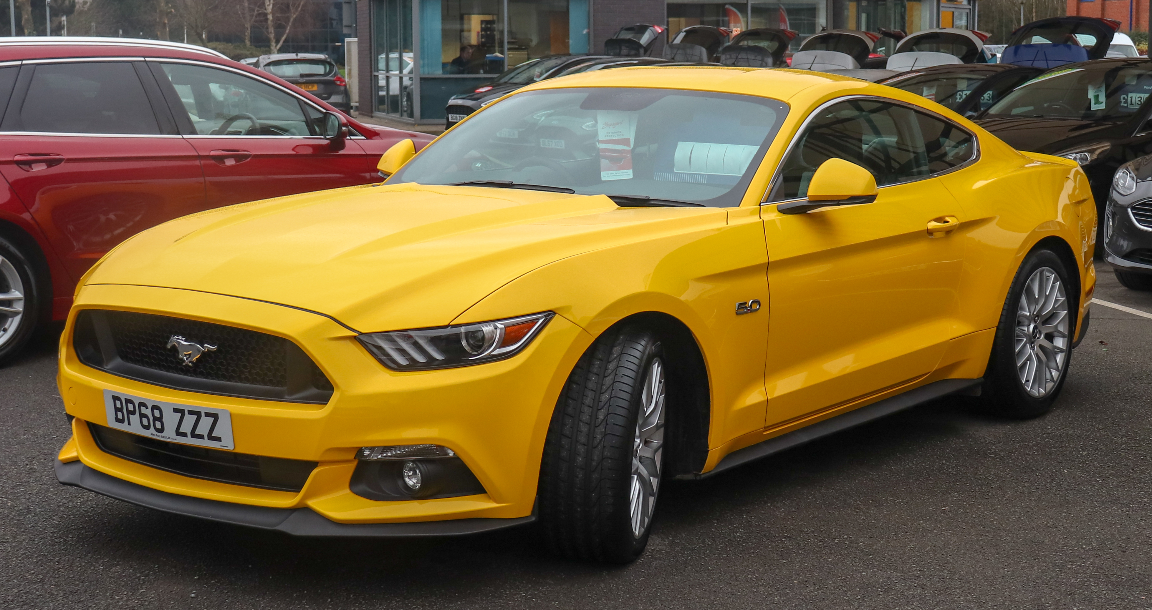 2018 Ford Mustang GT 5.0 Front Taken in Leamington Spa